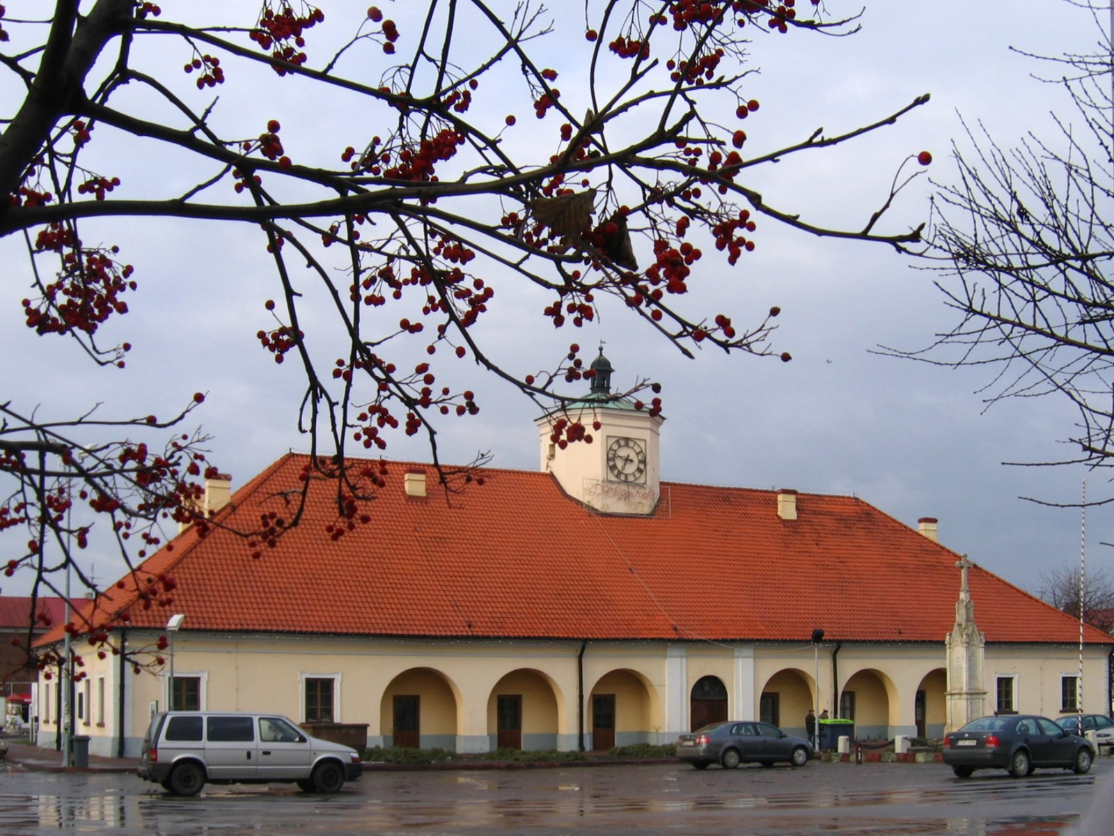 Old Town Hall in Staszów, Poland.